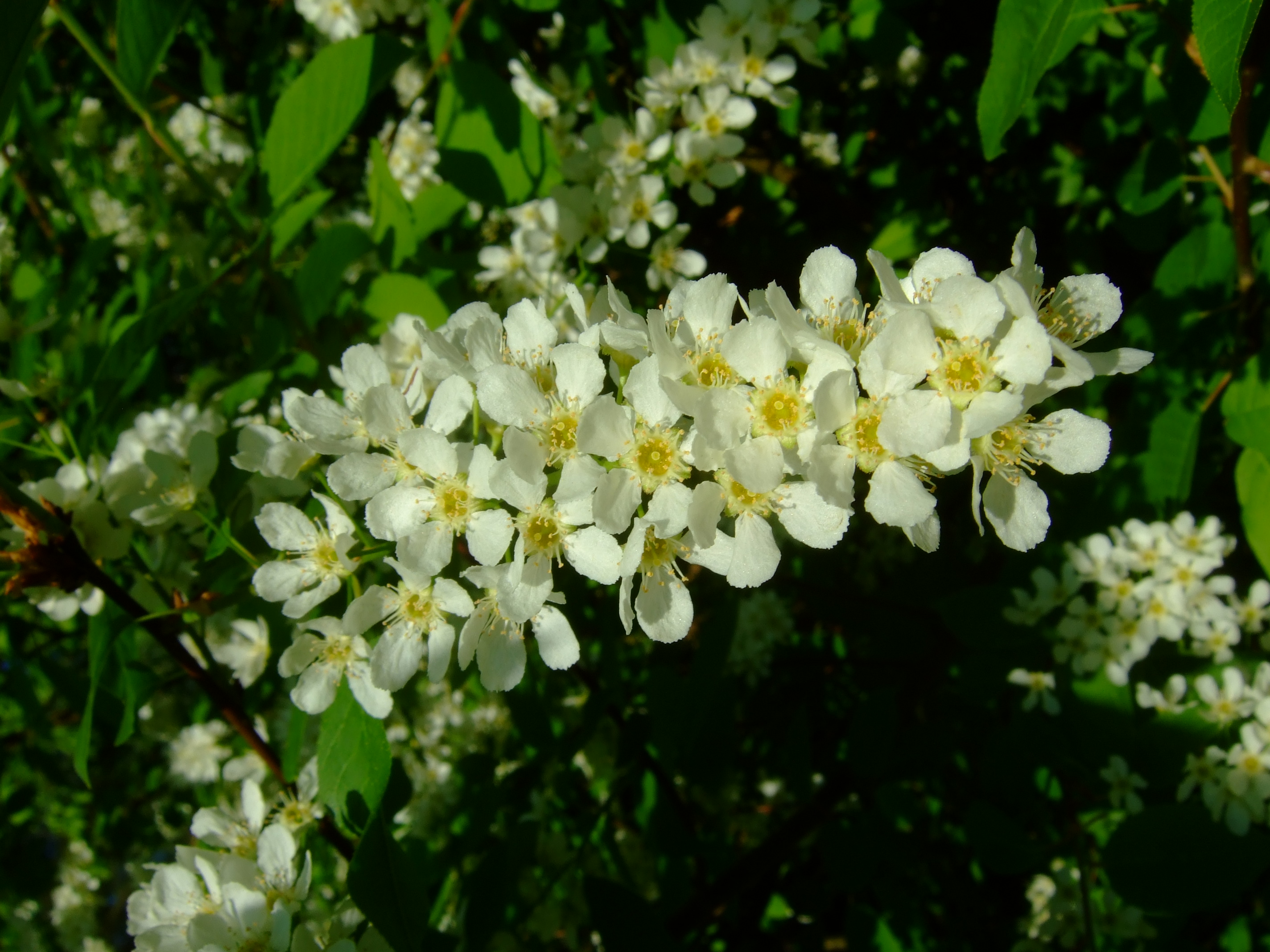 Bird Cherry flowers in Bahrenfeld, Hamburg.